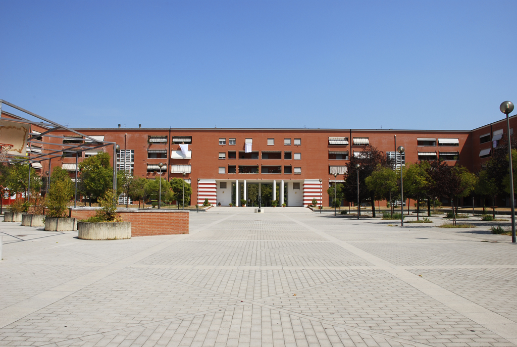 Cavallaccio RC10 Palace, Florence, Italy. Courtyard.